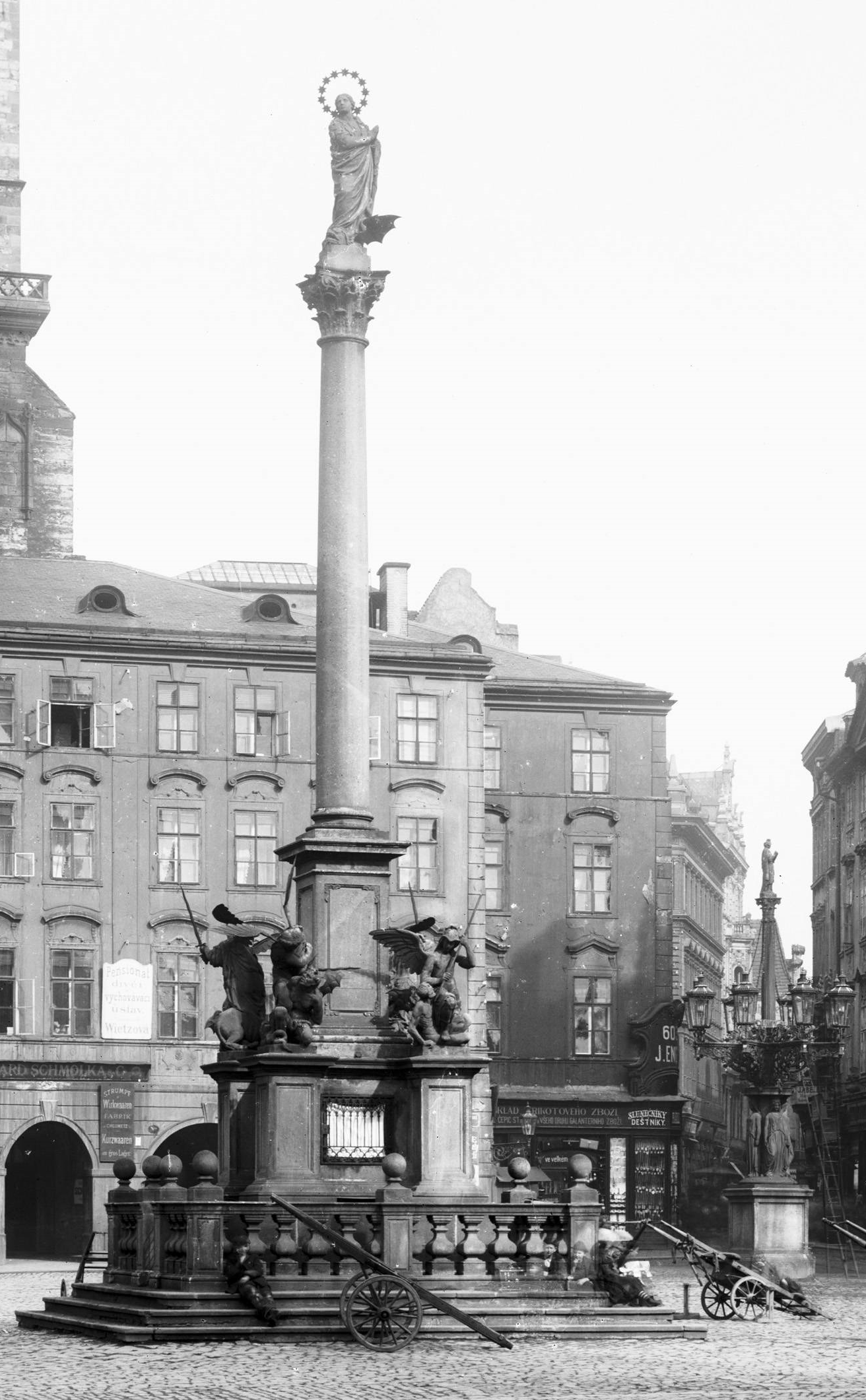 Maria column on Old Town Square in Prague, photographed by Jindřich Eckert at the turn of the century. Column was destroyed in 1918 by mob.